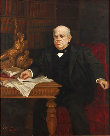 Portrait of Domingo Faustino Sarmiento, currently exhibited at the Museo Histórico Sarmiento of Buenos Aires.